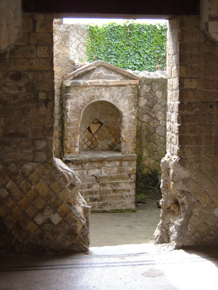 House altar for the Lares et Penates (in Herculaneum, Casa del Salone Nero). April 2005.